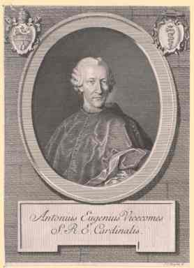 The cardinal Antonio Eugenio Visconti (1713-1788)